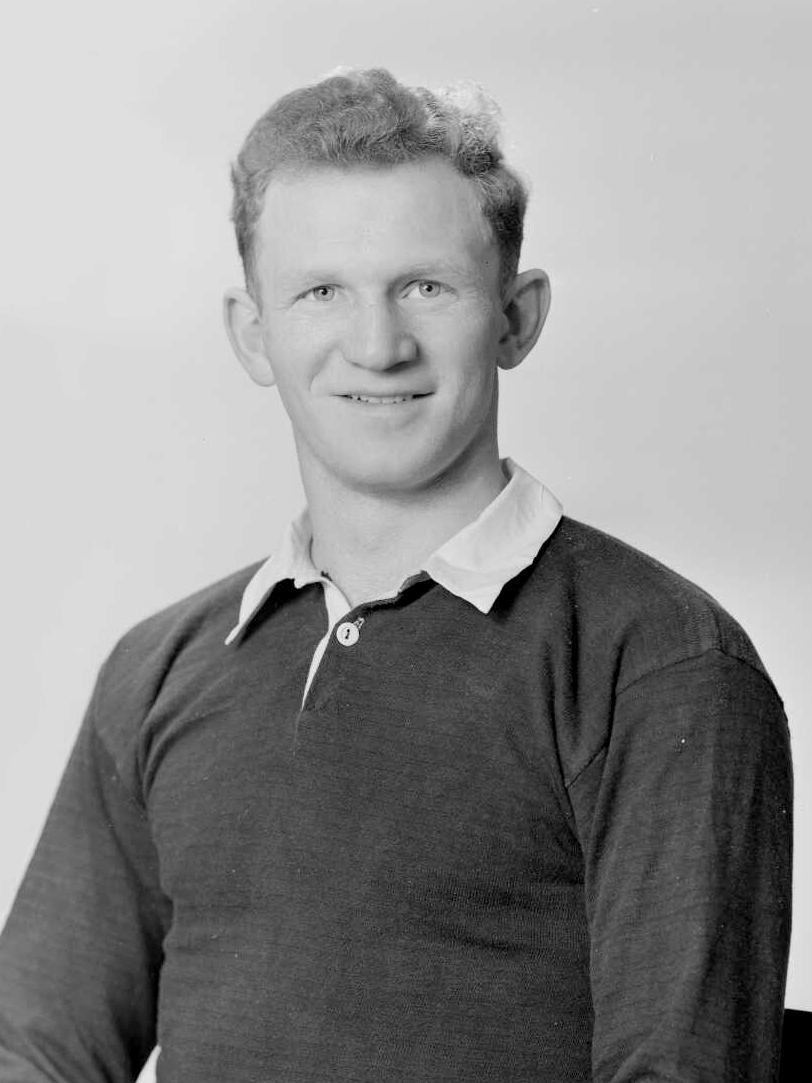 Photograph of rugby player Wayne Cottrell, taken by Crown Studio Ltd of Wellington.